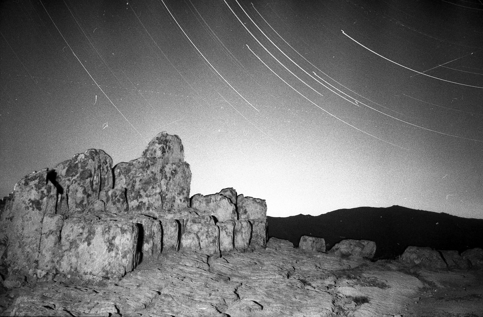 Black & white photo showing Star Trails over the thrones of Kokino. The technique includes long exposure of 2h and 15 mins on a black and white film using a wide angle objective mounted on Praktica MTL3 analog photo camera. Perseides meteor shower is common for mid August and two meteorites are visible on this photo, one just over the thrones and the other one in the upper right corner. The two disconnected lines are airplanes that passed in the sky during the time of exposure. Estimated time of usage of the observatory were years between 1800-1400 b.c. when ancient people built it and used it for time orientation and creating of a calendar. Today it's remains are silent witness of the natural erosion forces and the movement of heavenly bodies as well.